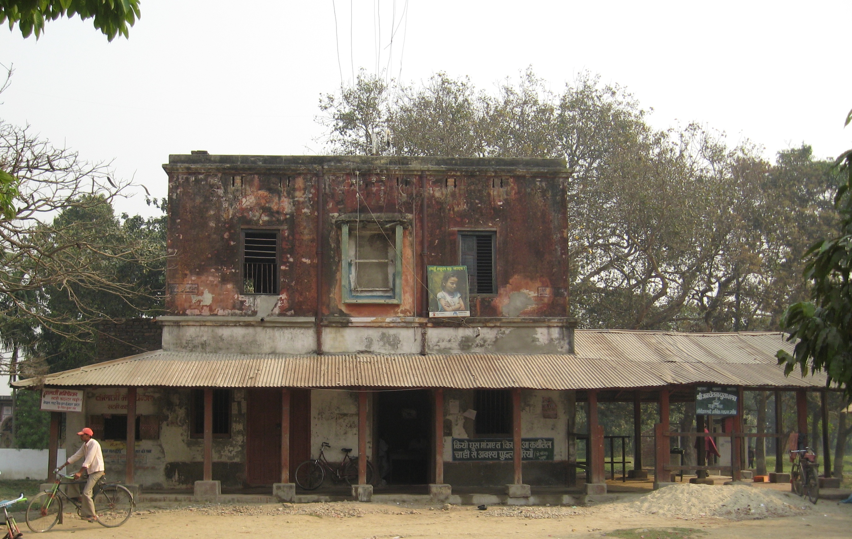 stopp of Nepal Railways in Khajuri. Object location 26° 38′ 31.00″ N, 86° 6′ 53.00″ E - OpenStreetMap - Proximityrama (Info)